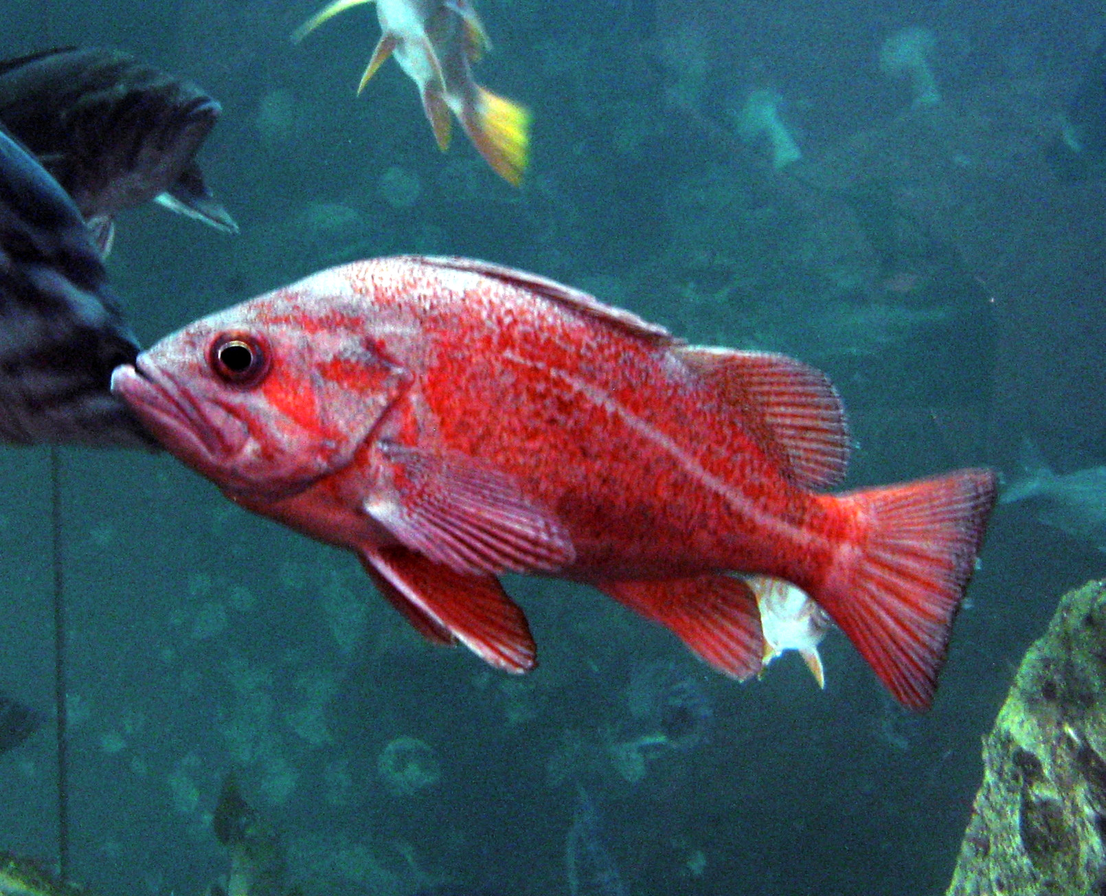 An adult Sebastes miniatus rockfish in the "Window on Washington Waters" tank